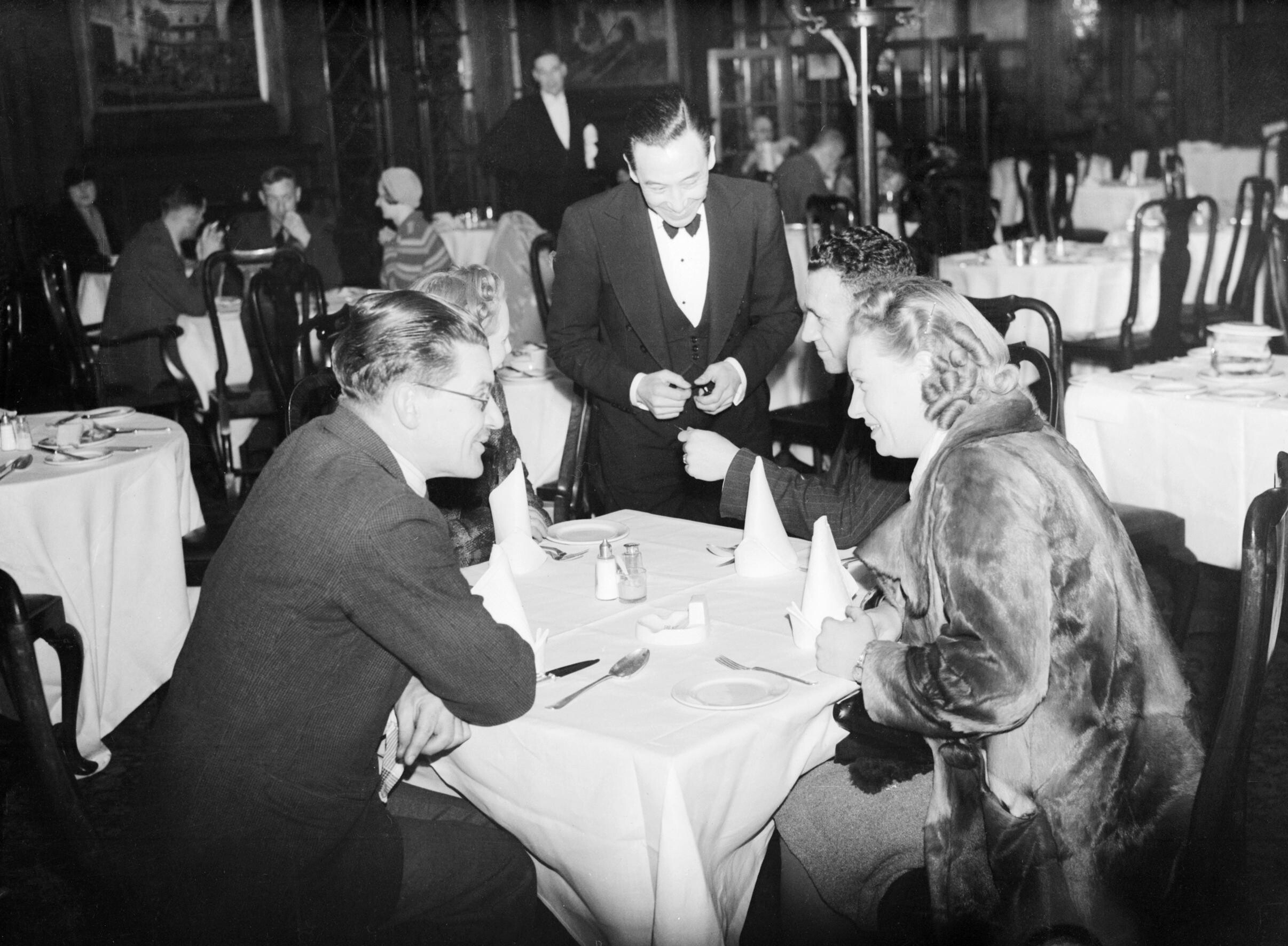 A group of diners give their order to the waiter at a restaurant in the West End of London, spring 1941. A group of four friends give their order to the waiter at this restaurant, somewhere in the West End of London. This restaurant is operating quite a luxurious service, with white table cloths and linen napkins visible on all the tables.